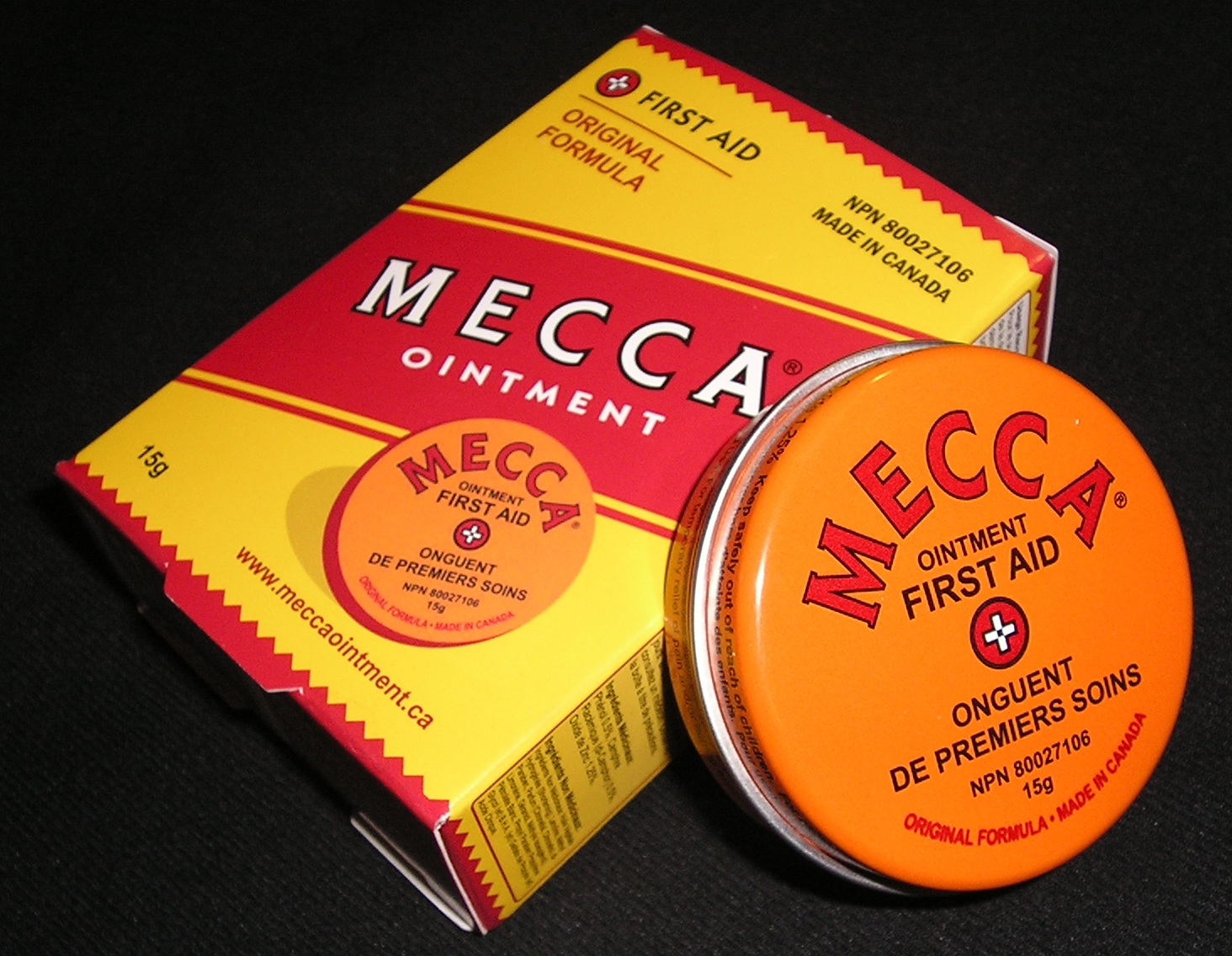 Mecca Ointment 2012. Yellow and red box with vintage orange tin.